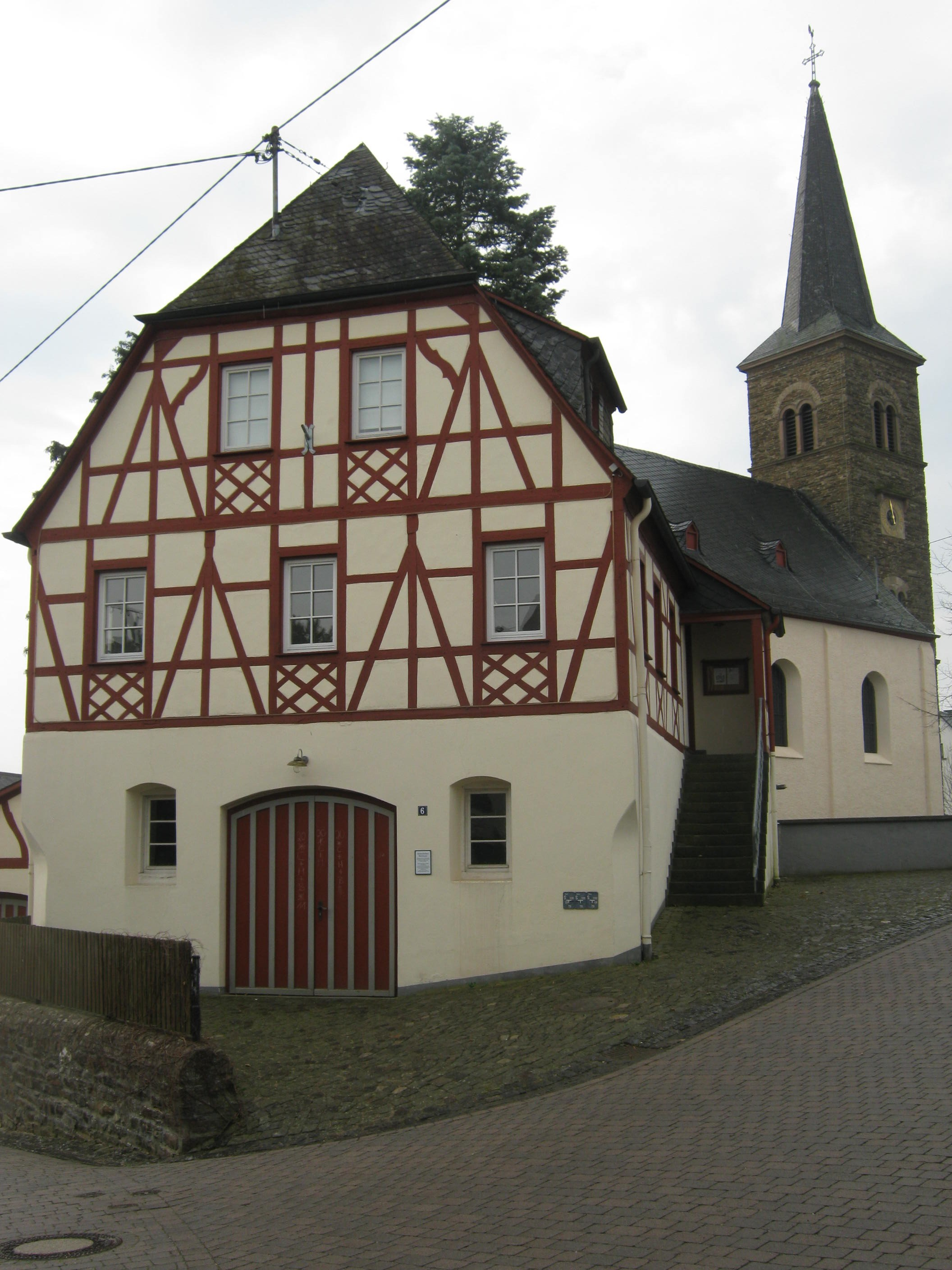 Jakob Kneip Museum in Morshausen